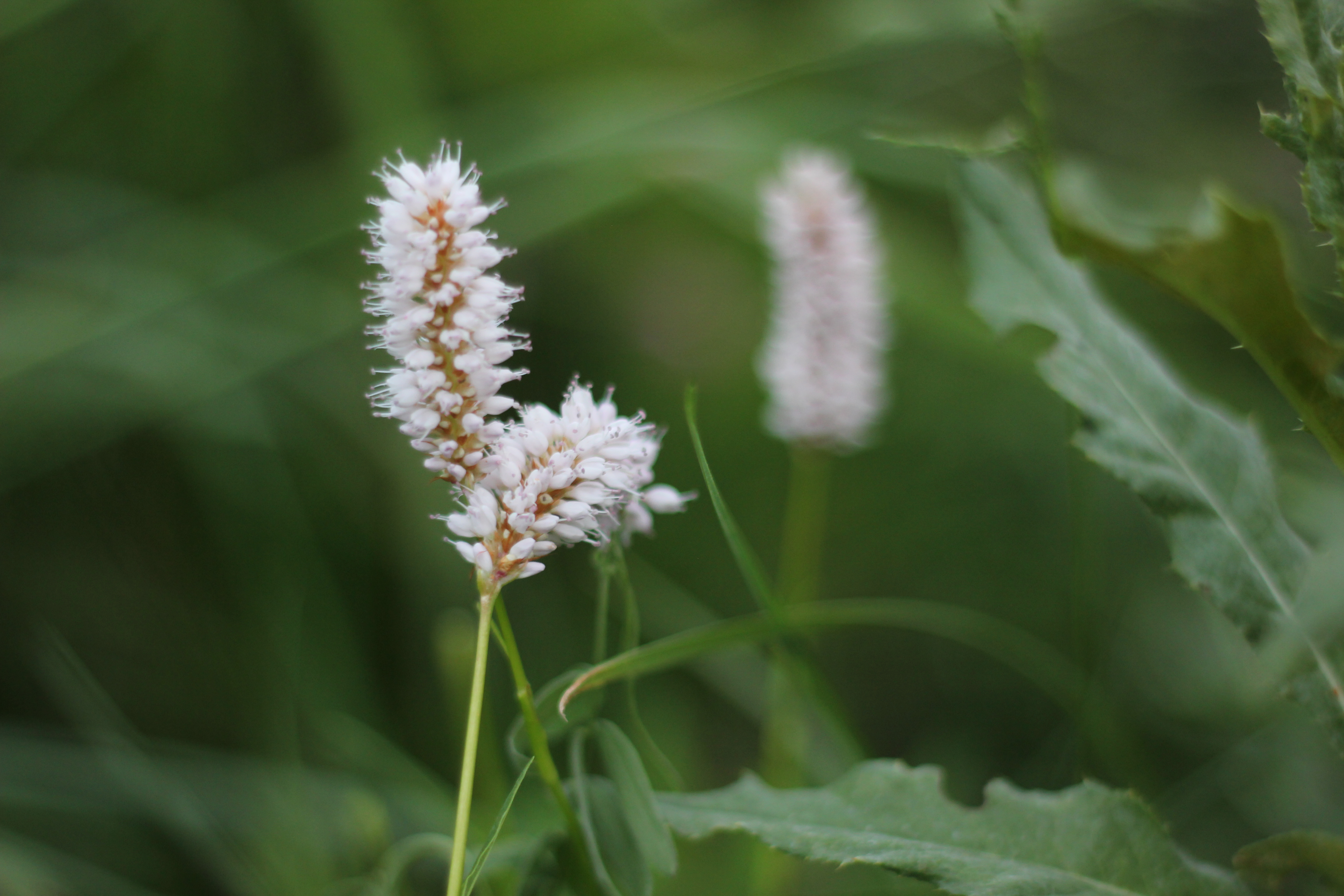 Bistorta officinalis. Photo taken in Dvarčionių pieva, Vilnius, Lithuania